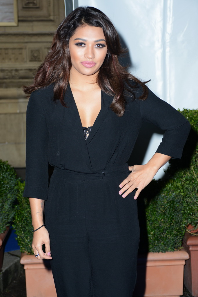 Vanessa White at the Royal Albert Hall in London on January 7, 2014.